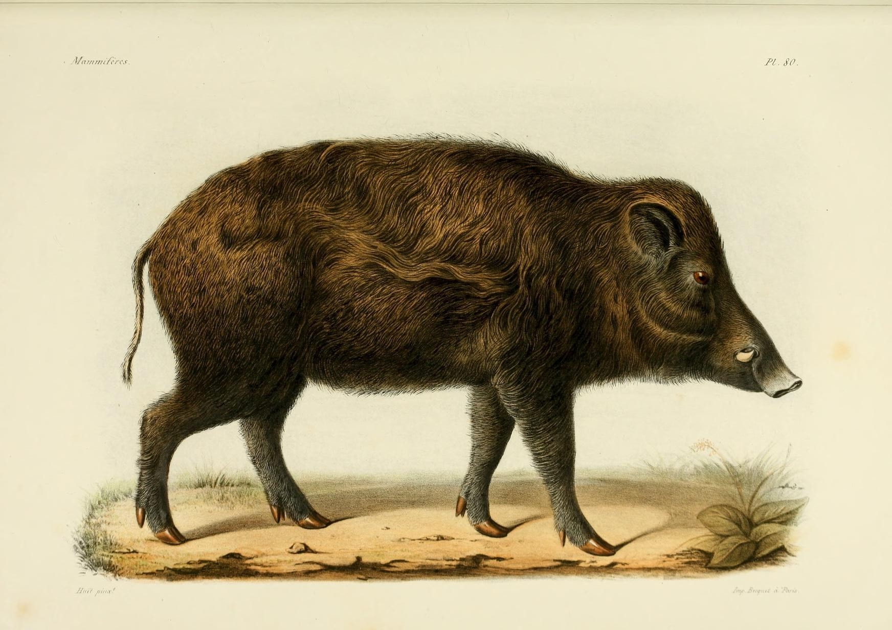 s; §